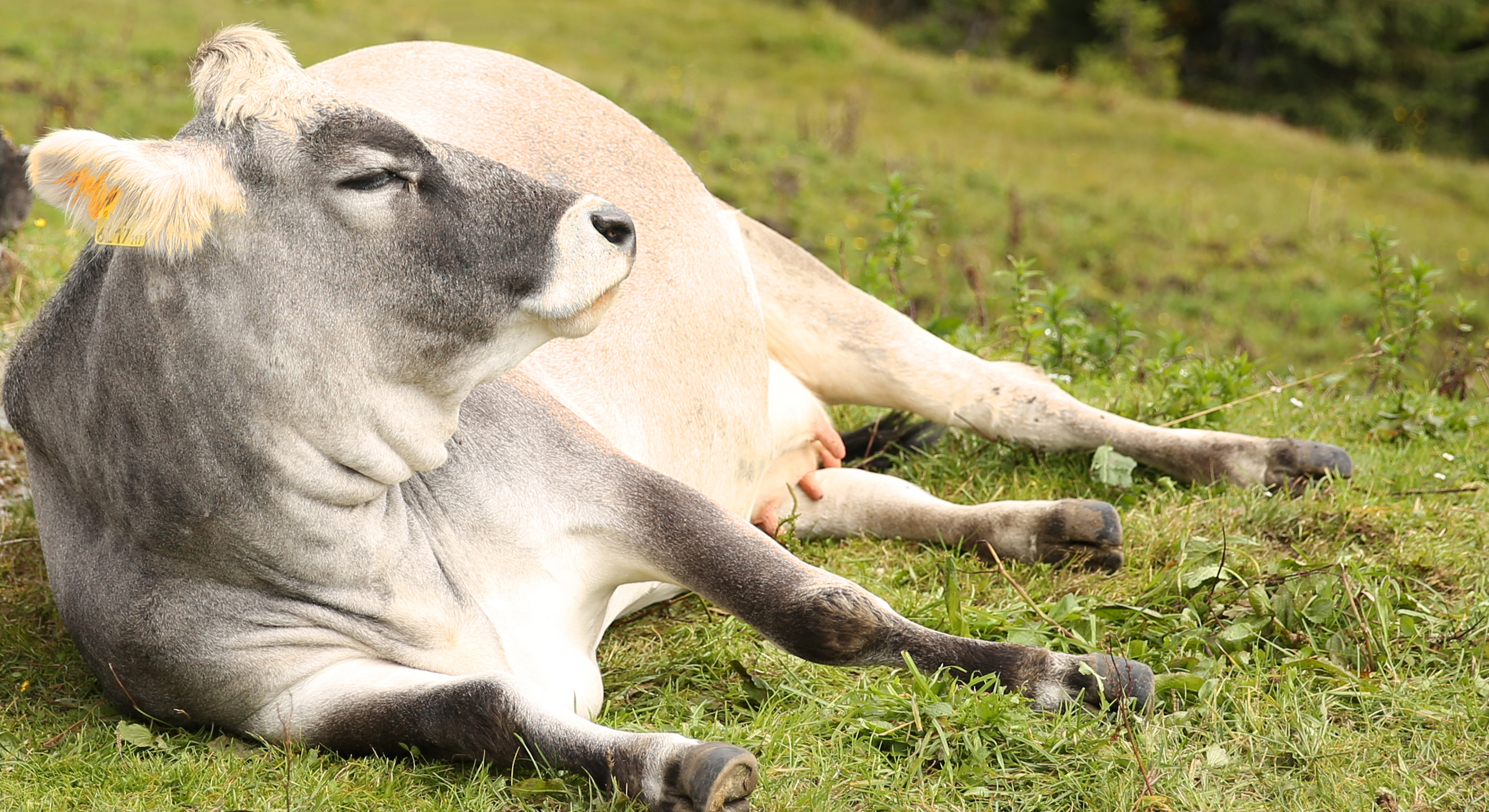 A cow lying on its side in a field.